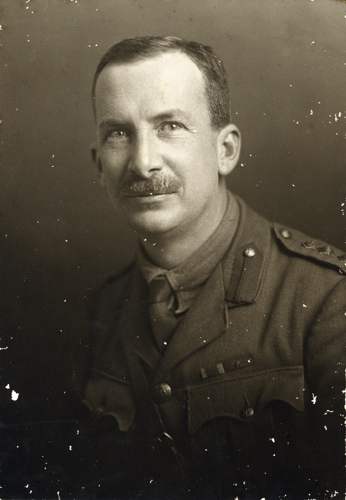 Alexander Marks in a WW1 era military uniform.